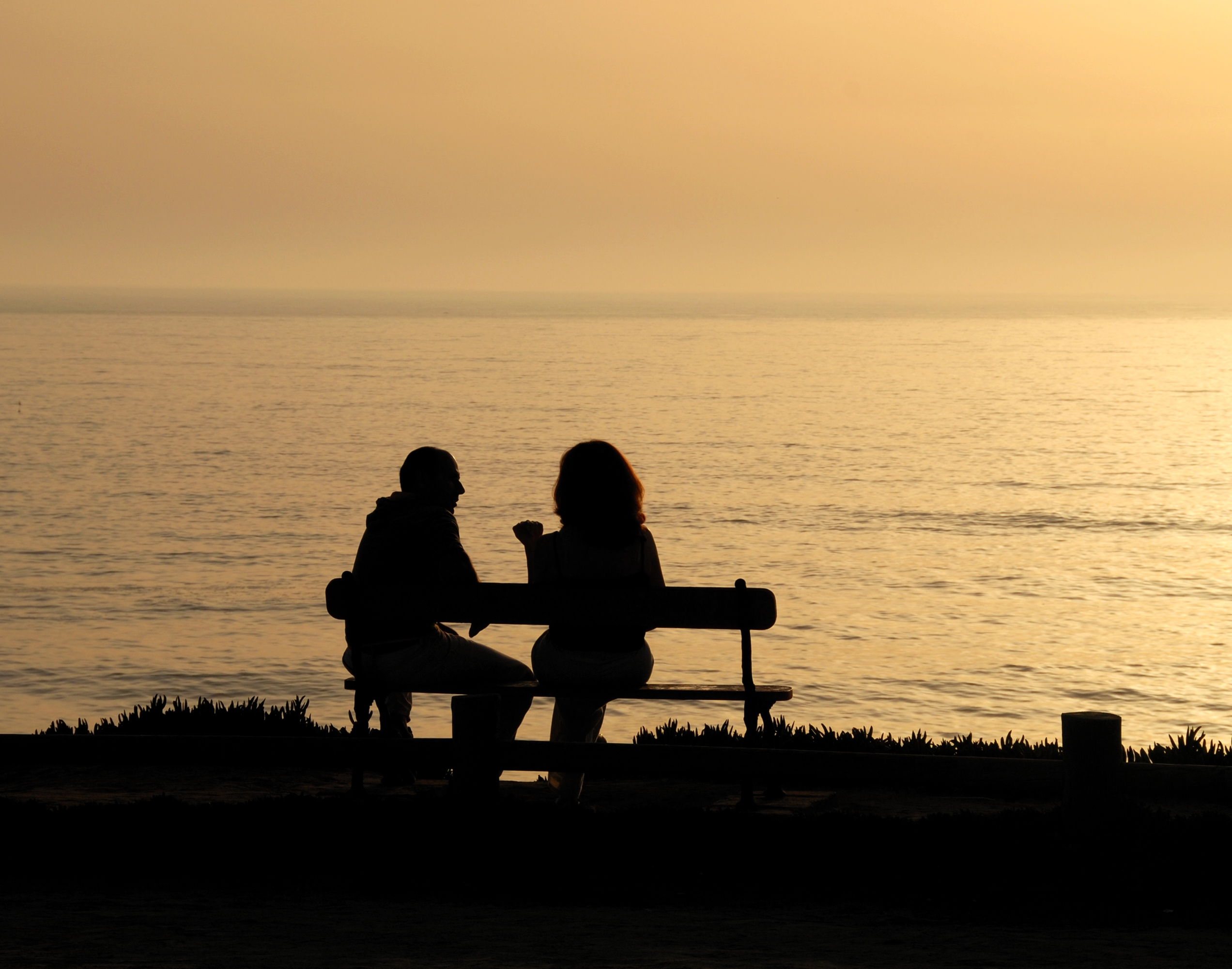 Talking in the evening. Porto Covo, Portugal